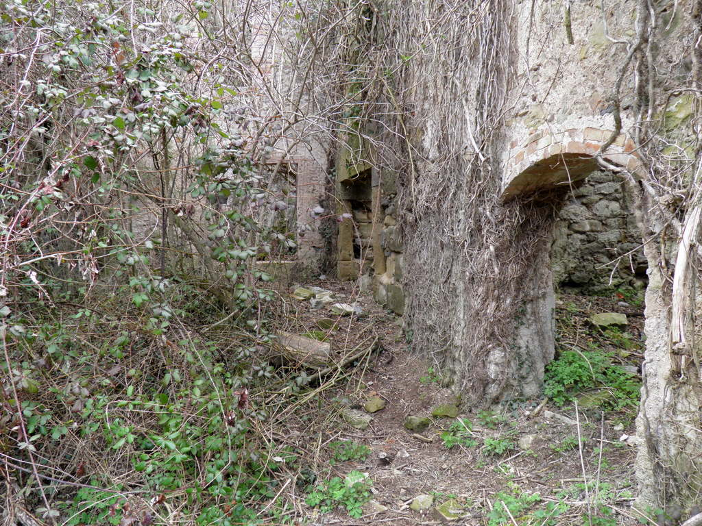 Molí de Marfà, Castellcir, Catalonia